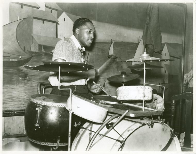 Digital ID: 1260217. Wolcott, Marion Post -- Photographer. October 1939 Notes: Original negative #: 52907-D Source: Farm Security Administration Collection. / Tennessee. / Marion Post Wolcott. (more info) Repository: The New York Public Library. Schomburg Center for Research in Black Culture. Photographs and Prints Division. See more information about this image and others at NYPL Digital Gallery. Persistent URL: Rights Info: No known copyright restrictions; may be subject to third party rights (for more information, click here)